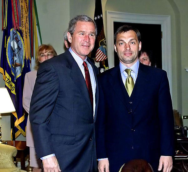 Orbán Viktor and George Bush